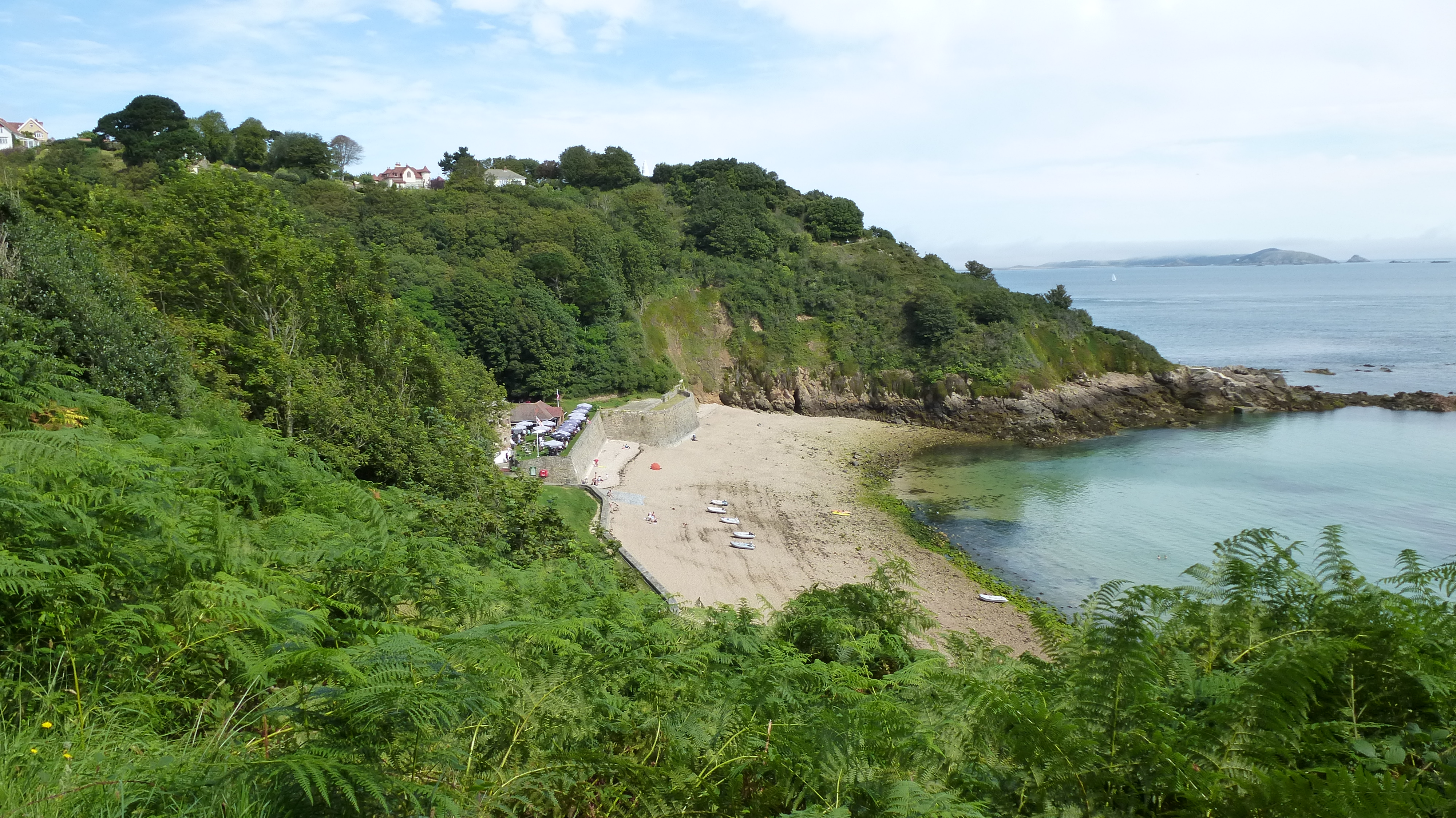 View of Fermain Bay, near St. Martin in the Southeast of Guernsey.